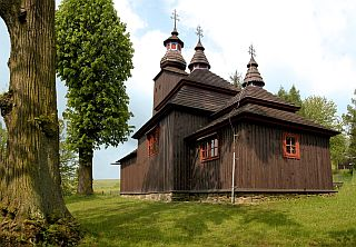 wooden church